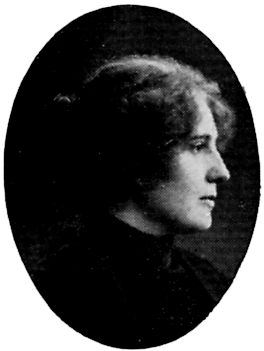 Image scanned from the book "Svenskt Porträttgalleri XX - Arkitekter, Bildhuggare, Målare m.fl. " ("Swedish Portrait Gallery XX - Architects, Sculptors, Painters, ") published 1901